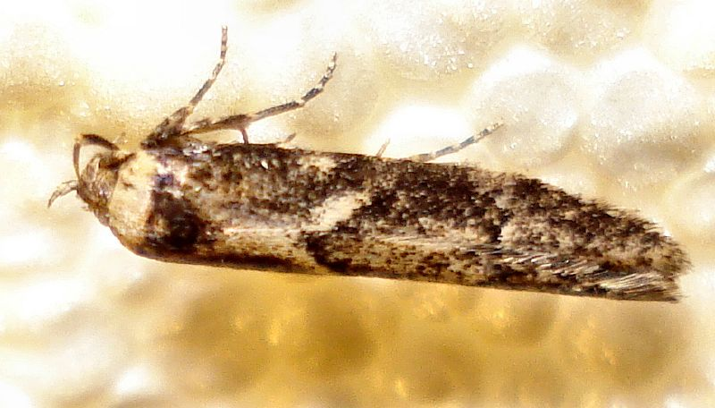 Blastobasis adustella from Lincolnshire